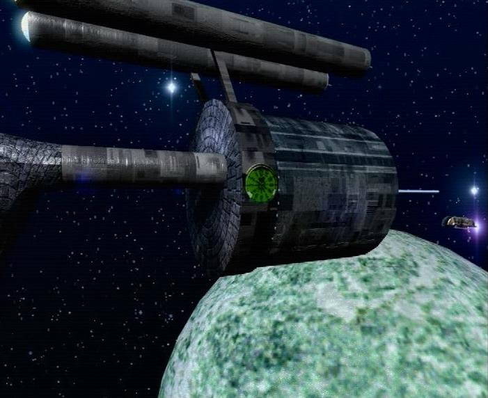 An animation of the spaceship "Apparatspott" from the Low German science fiction movie "De Apparatspott" made by the Filmemoker GbR.